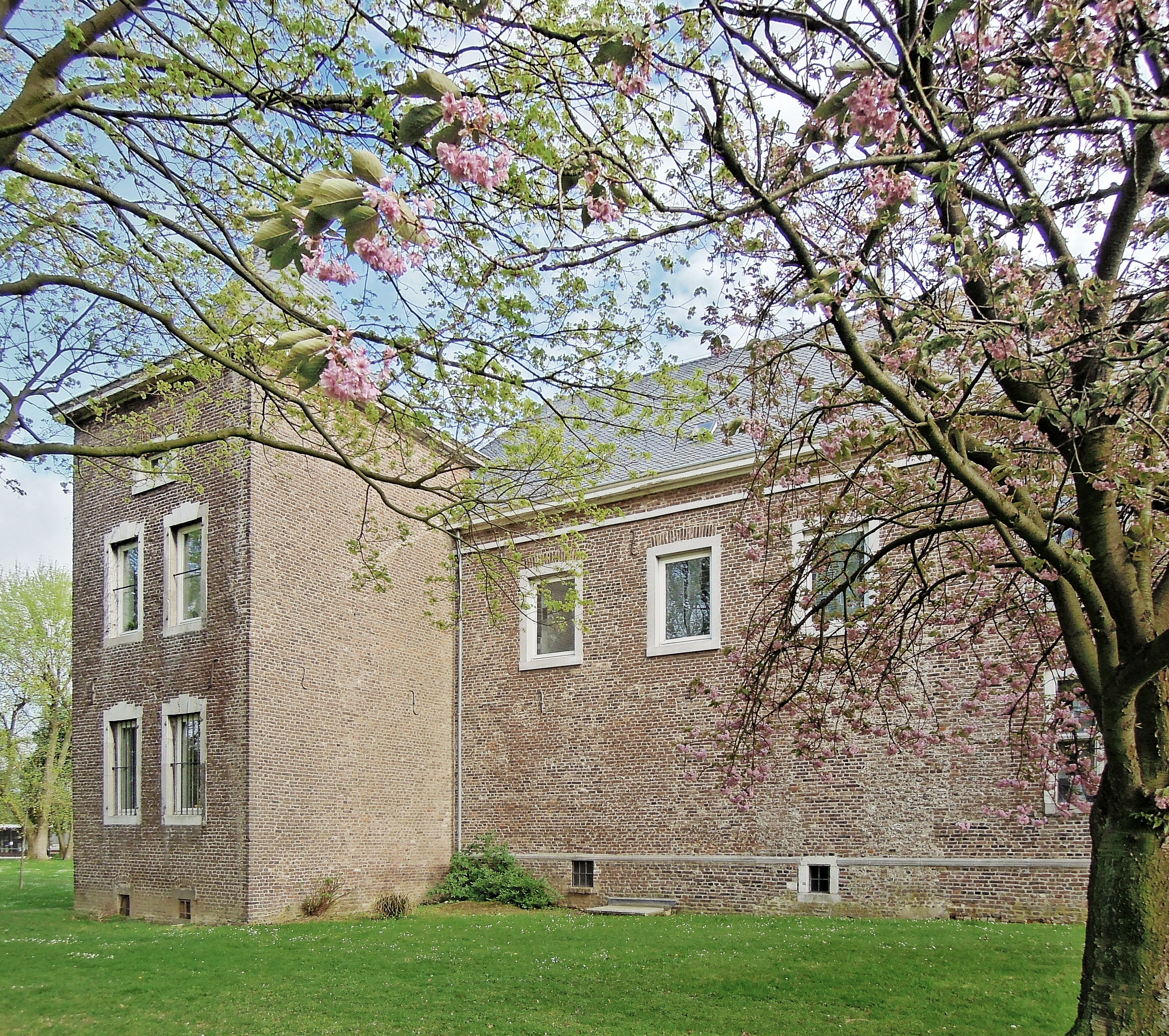 Drimbornshof in Dürwiß